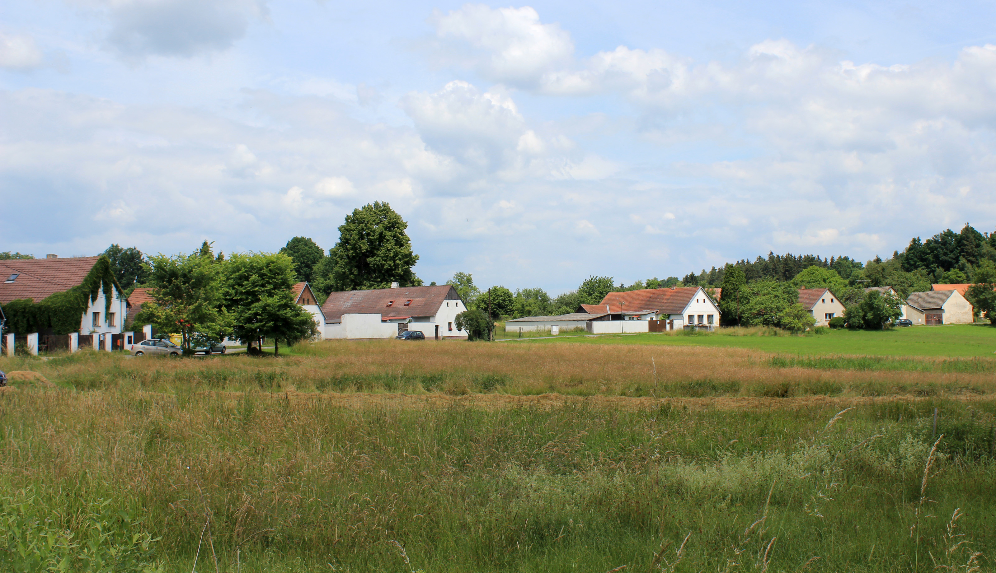 Monumental semi-circular common in Nová Ves, part of Číměř, Czech Republic.